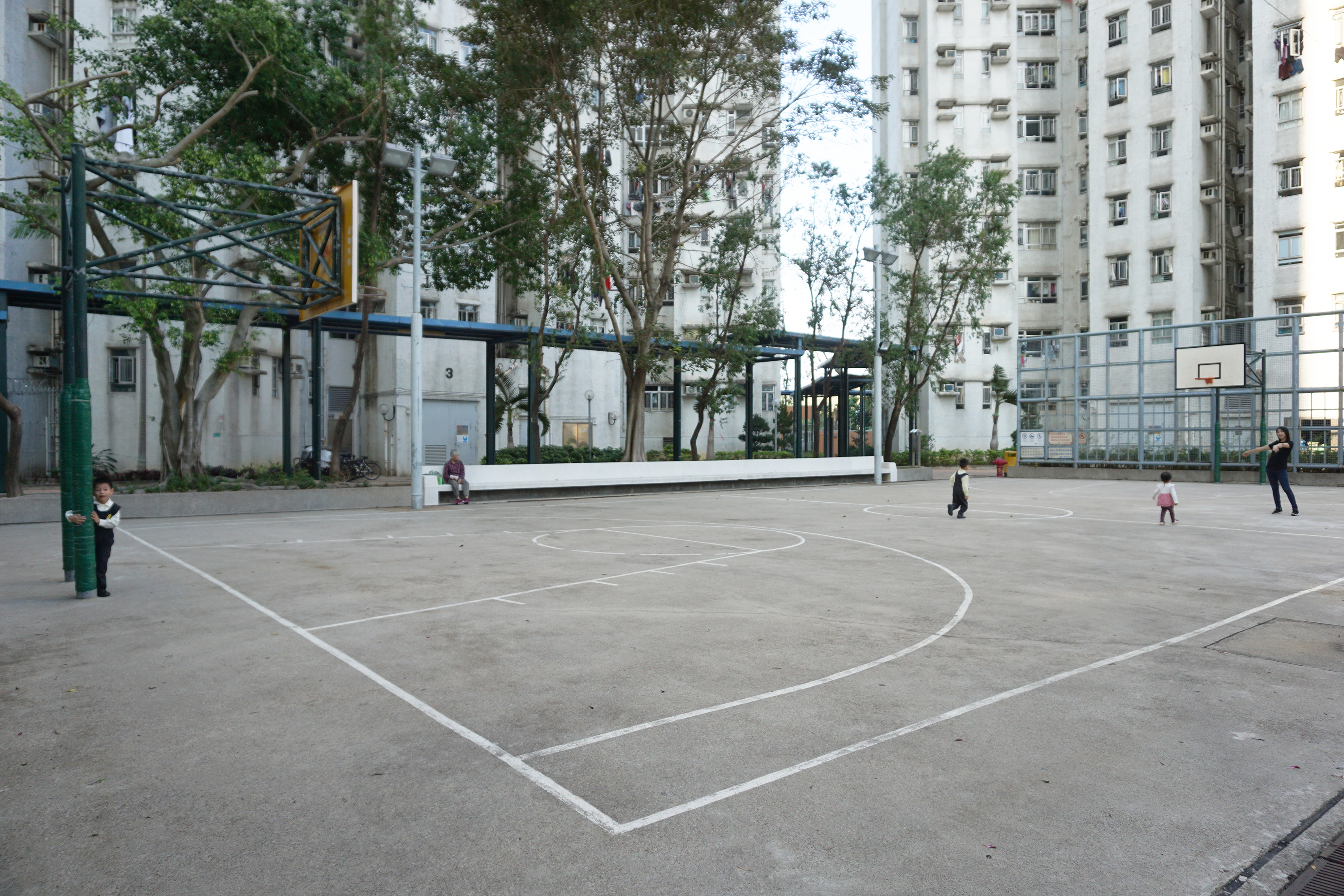 Tsui Lai Garden in Sheung Shui, Hong Kong.